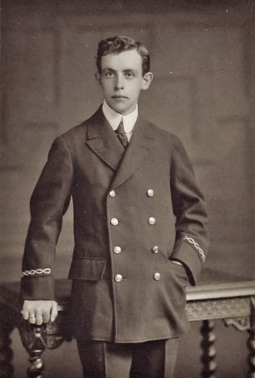 Harold Bride posing for a picture in April 1912